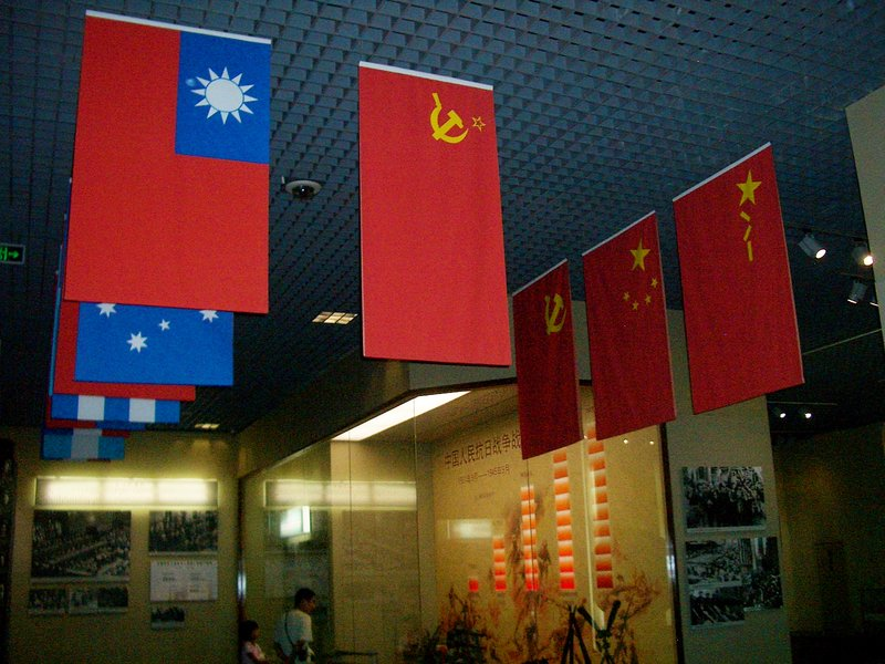 Flags of China, its Party and Army, and its allies, in the Memorial Hall of the Chinese People's War of Resistance Against Japanese Aggression in Wanping Castle